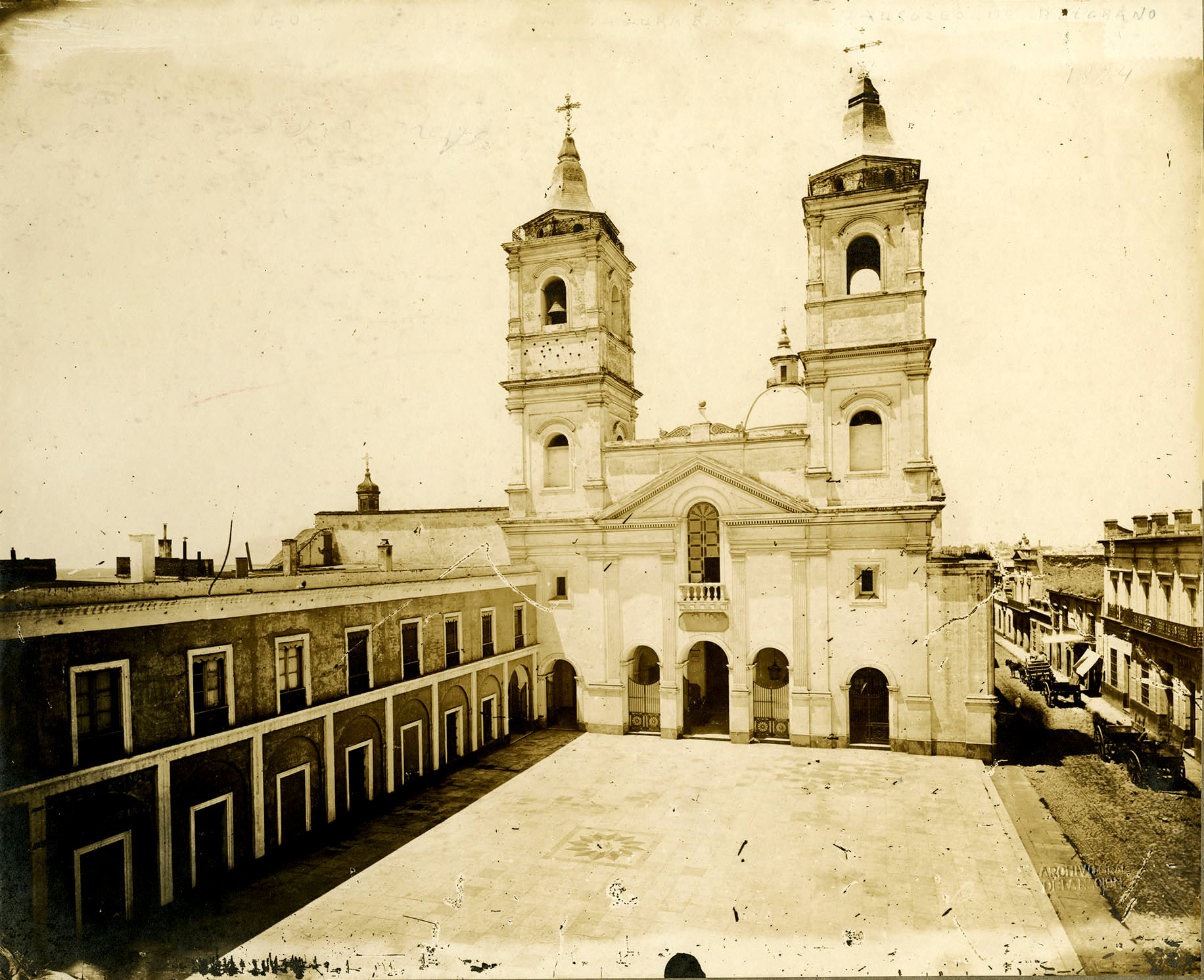 Exterior view of the Santo Domingo Convent in Buenos Aires. The building had been remodeled by architects Plou and Oliver, and the mausoleum of Manuel Belgrano would be inaugurated in 1903.